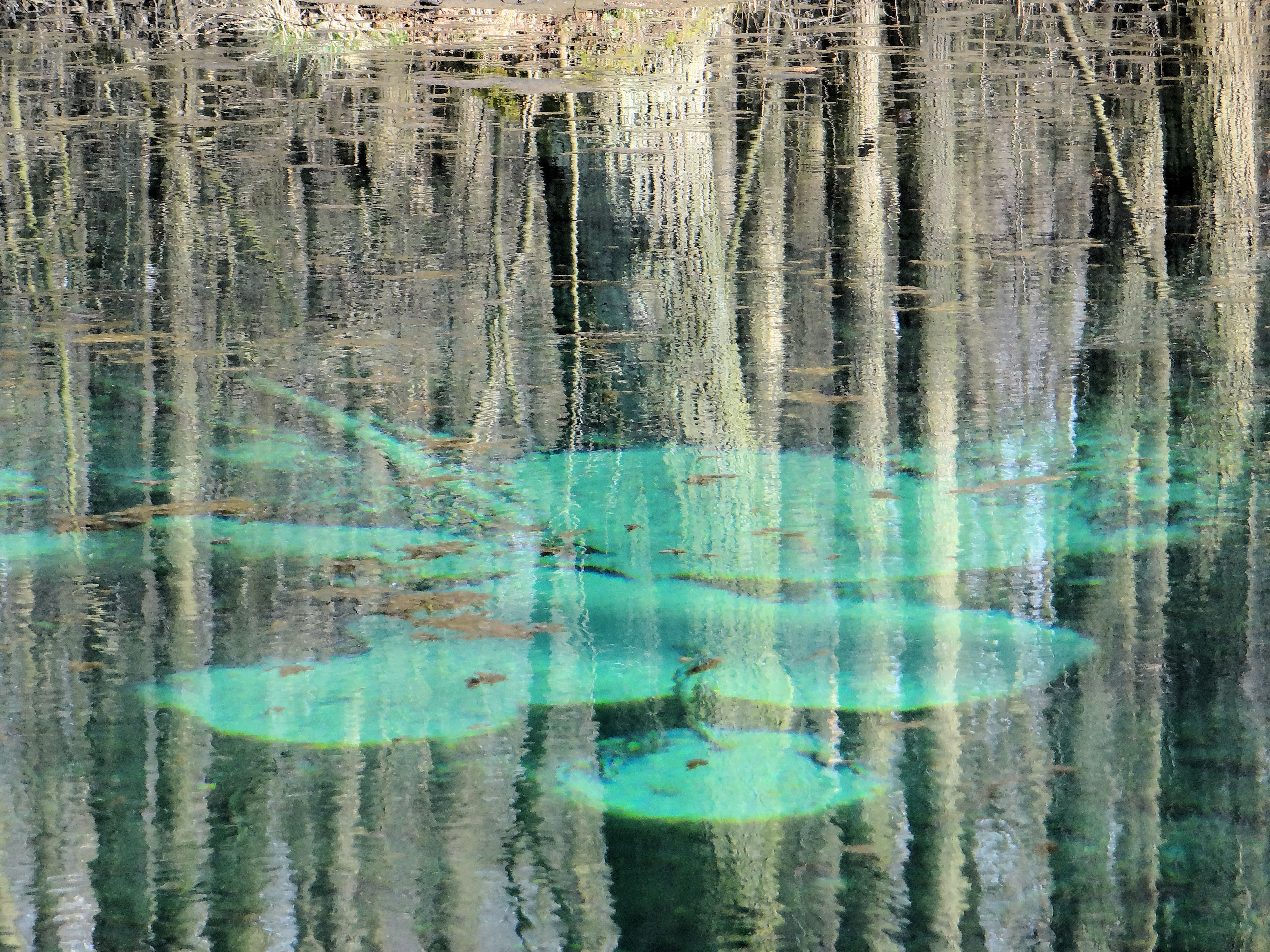 Blue Sources Nature Reserve in Tomaszow Mazowiecki